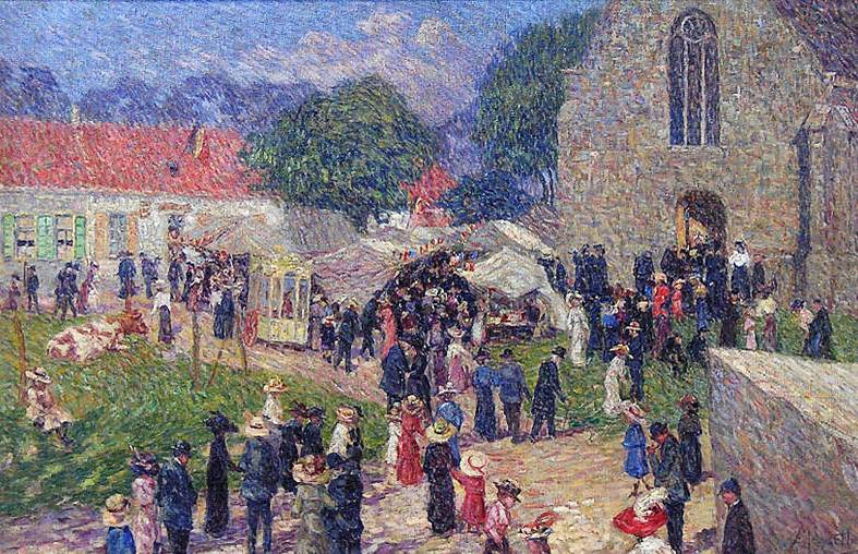 "Kermis te Kerselaere" by Modest Huys